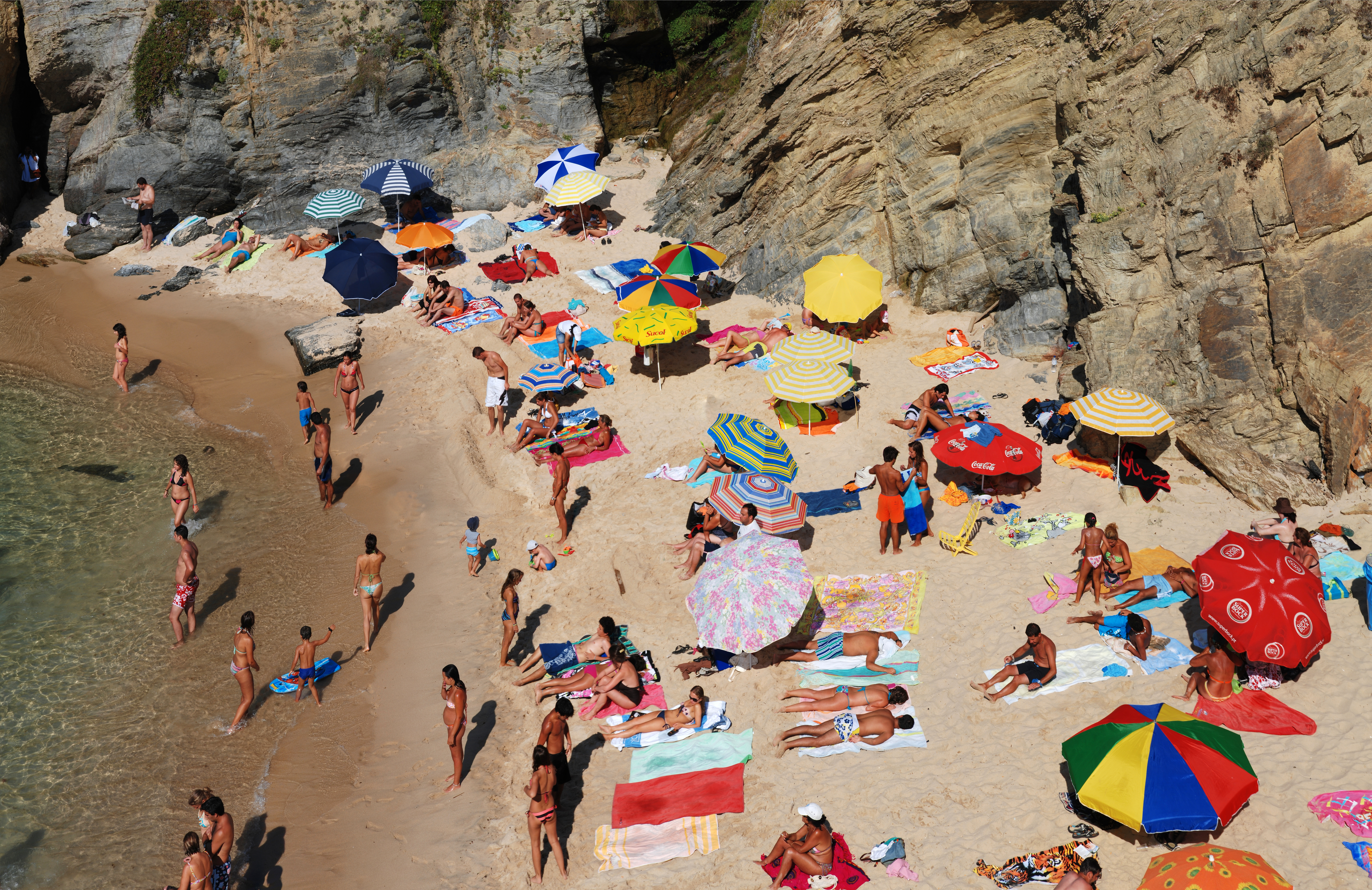 The Praia Pequena (Small Beach). Porto Covo, west coast of Portugal